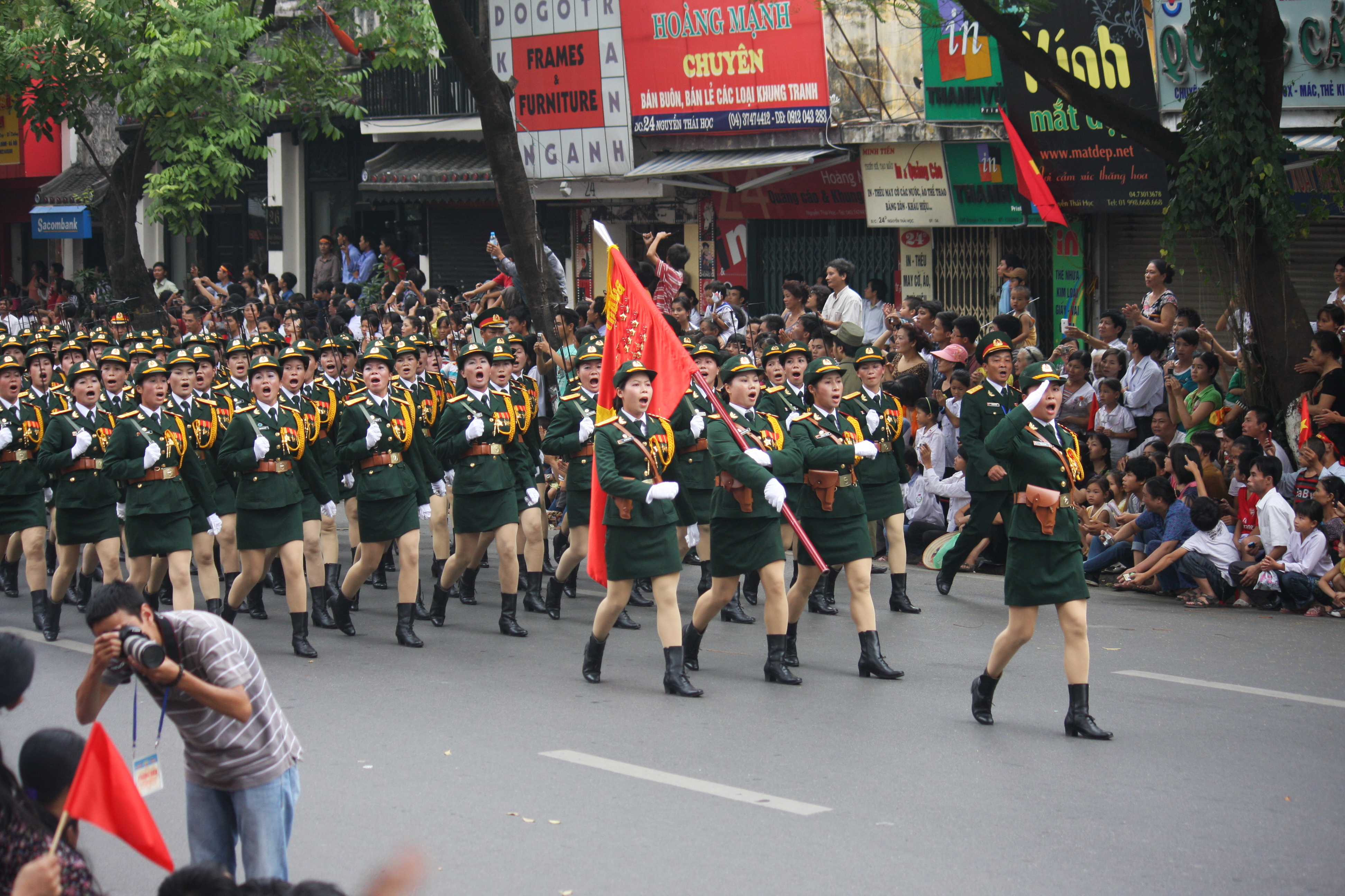 Military parade, Nguyen Thai Hoc street, Hanoi, Vietnam.